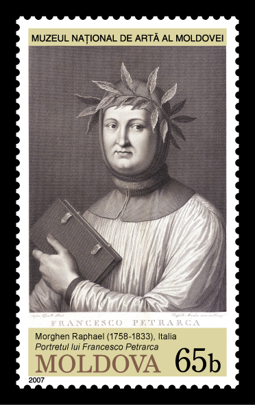 Stamp of Moldova